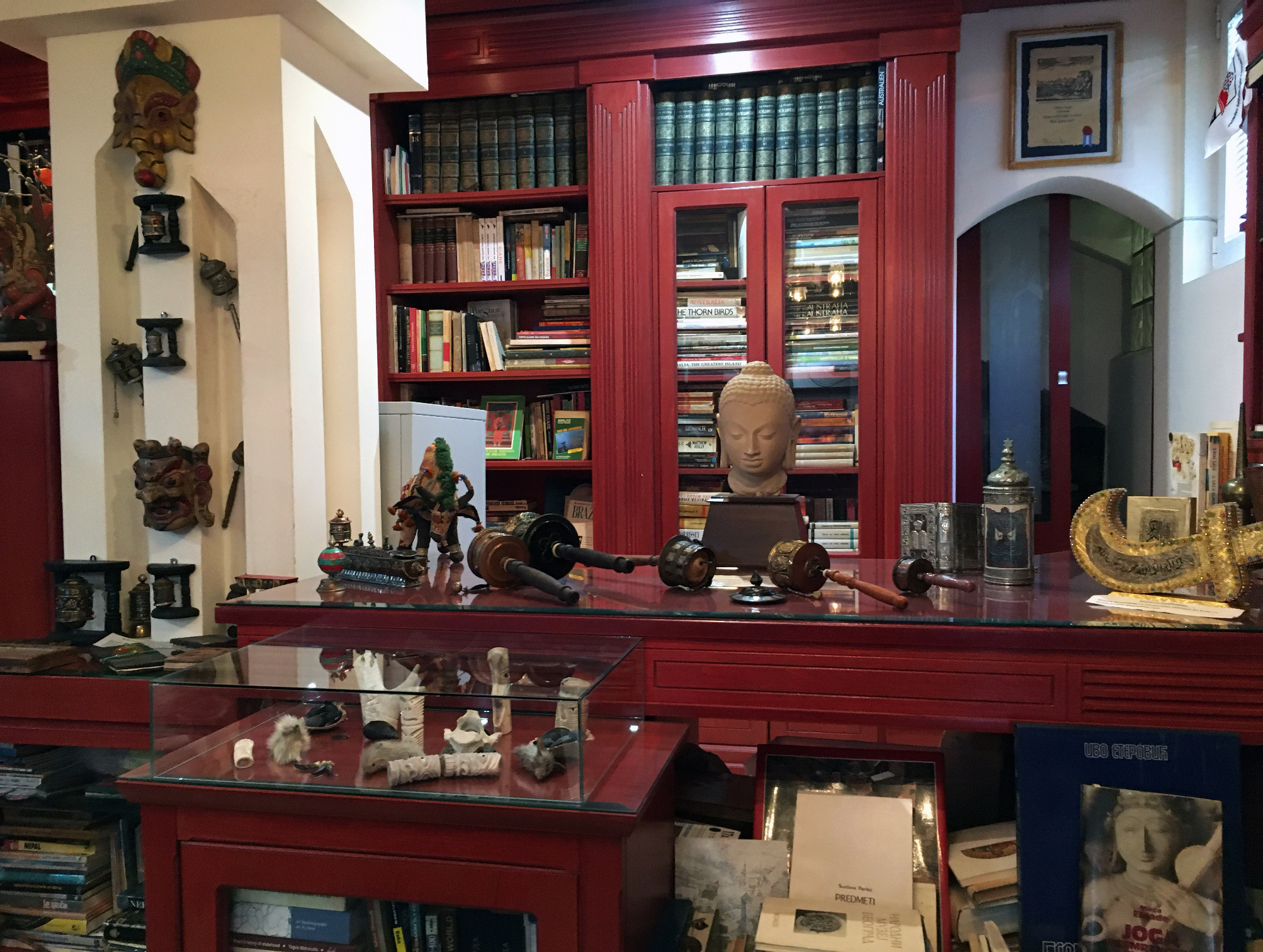 African mask and books collection, Adligat, Serbia